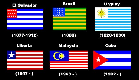 Flag designs directly or indirectly inspired by the United States flag (see Znamierowski's "World Encyclopedia of Flags", ISBN 1-84309-042-2).